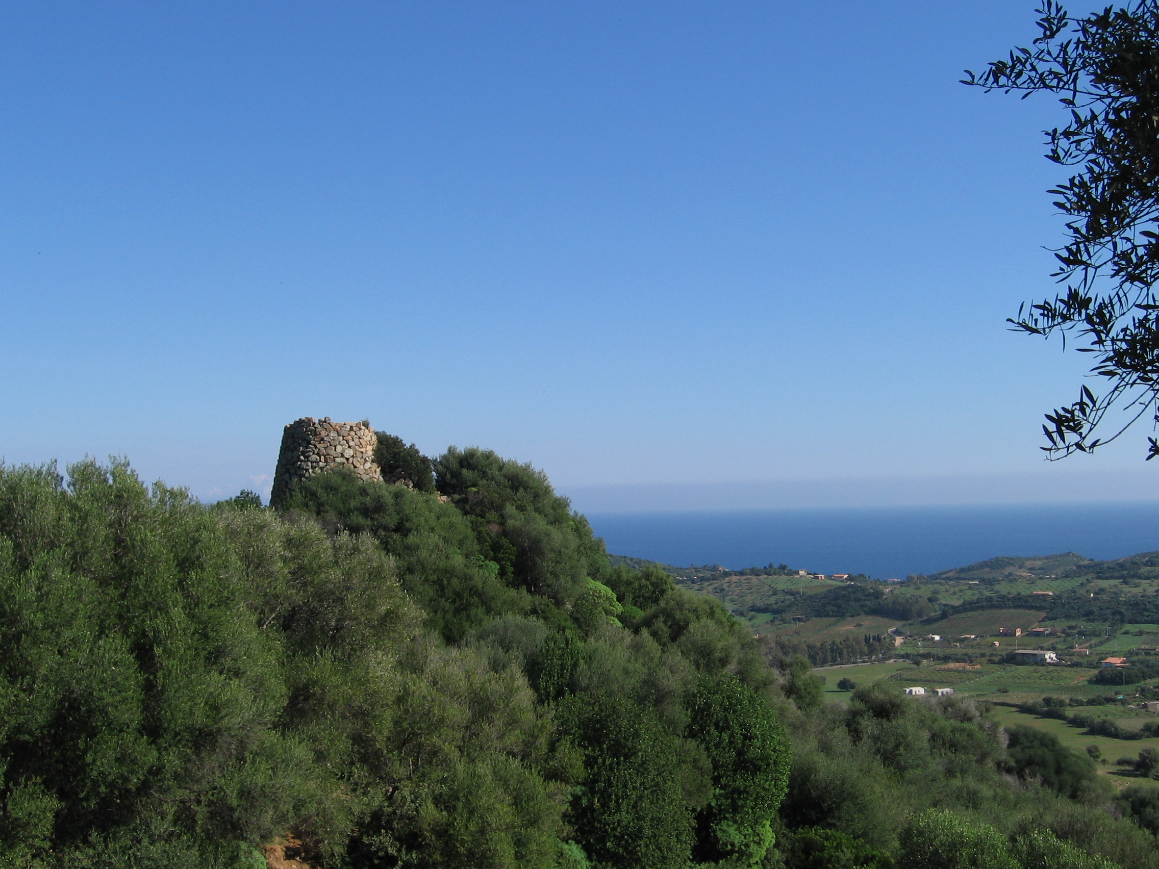 Nuraghe Longu